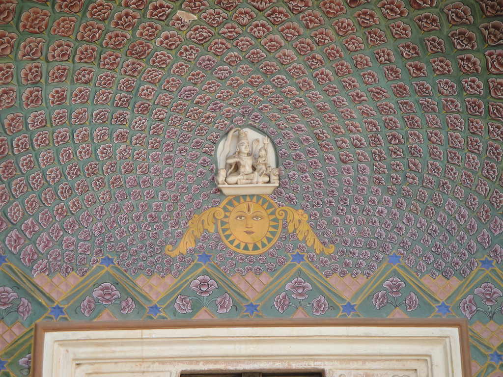 Jaipur, City Palace, Oct 27th (30)